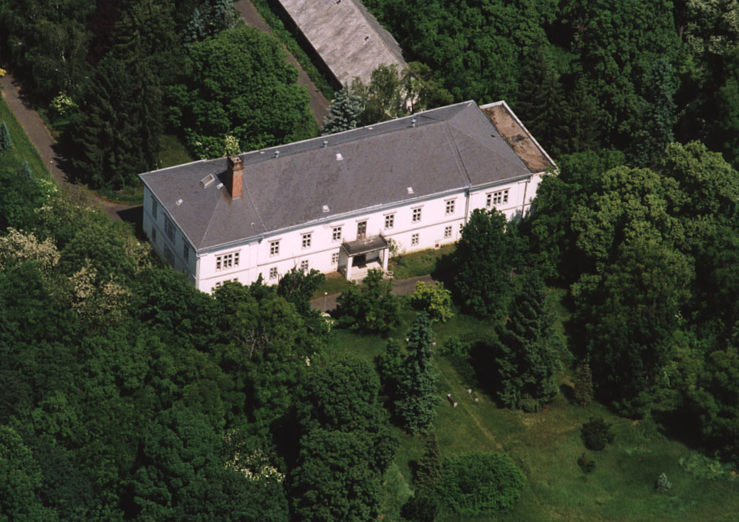 Baktalórántháza - Hungary - Europe (Dégenfeld Mansion) This is a photo of a monument in Hungary. Identifier: 8188